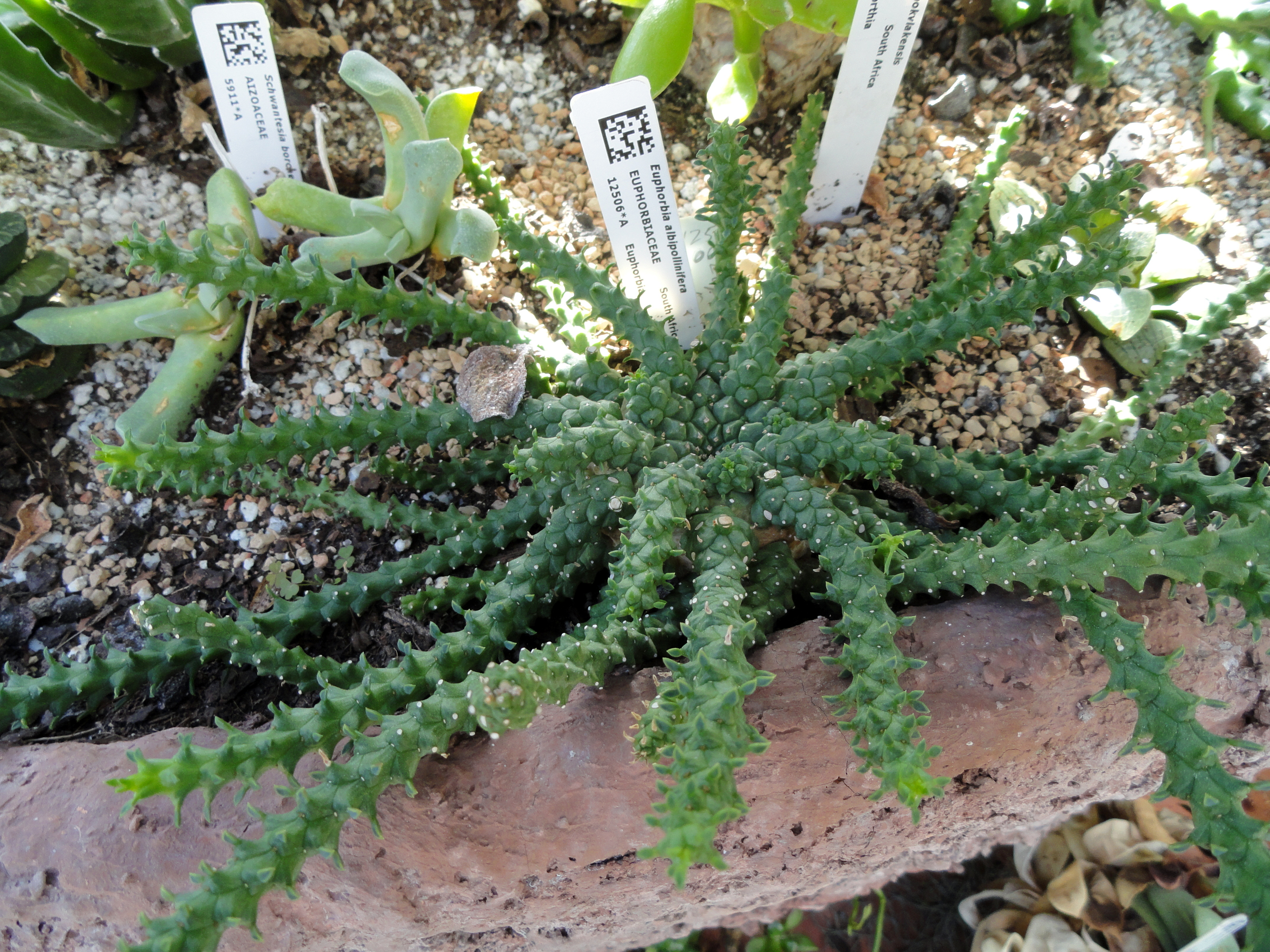 Botanical specimen in the Lyman Plant House, Smith College, Northampton, Massachusetts, USA.